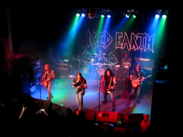 Iced Earth performing in 2012.